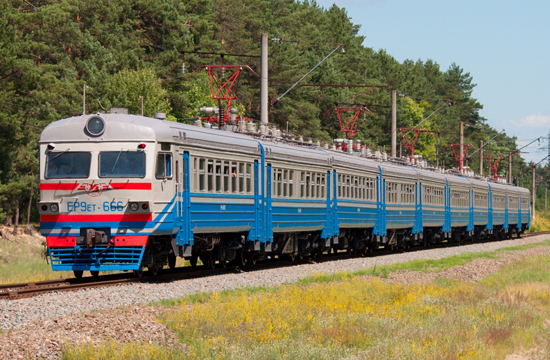 ER9ET-666 EMU-train between Zhukotki and Chernigov stations (Ukraine)